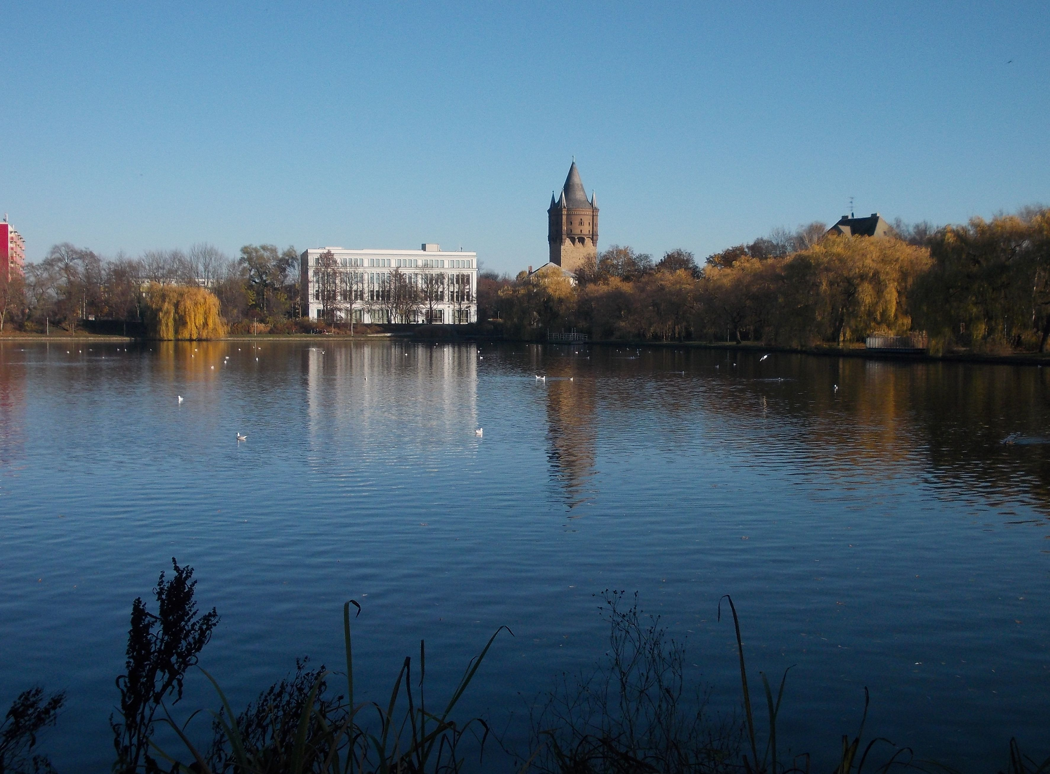 Southern part of Gotthardteich in Merseburg (district: Saalekreis, Saxony-Anhalt)